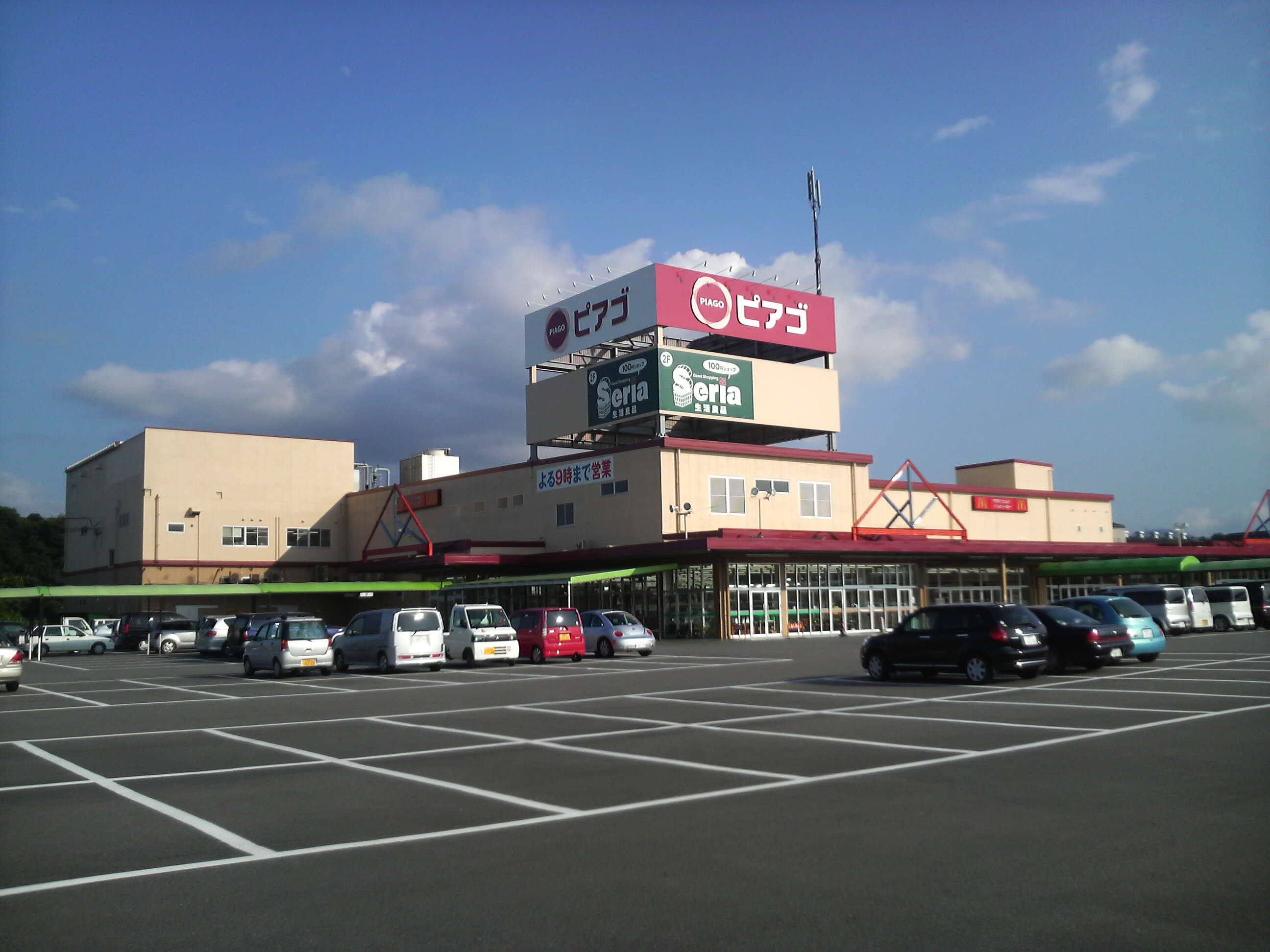 The "PIAGO Ueji" Supermarket in Ise city, Mie Prefecture, Japan.